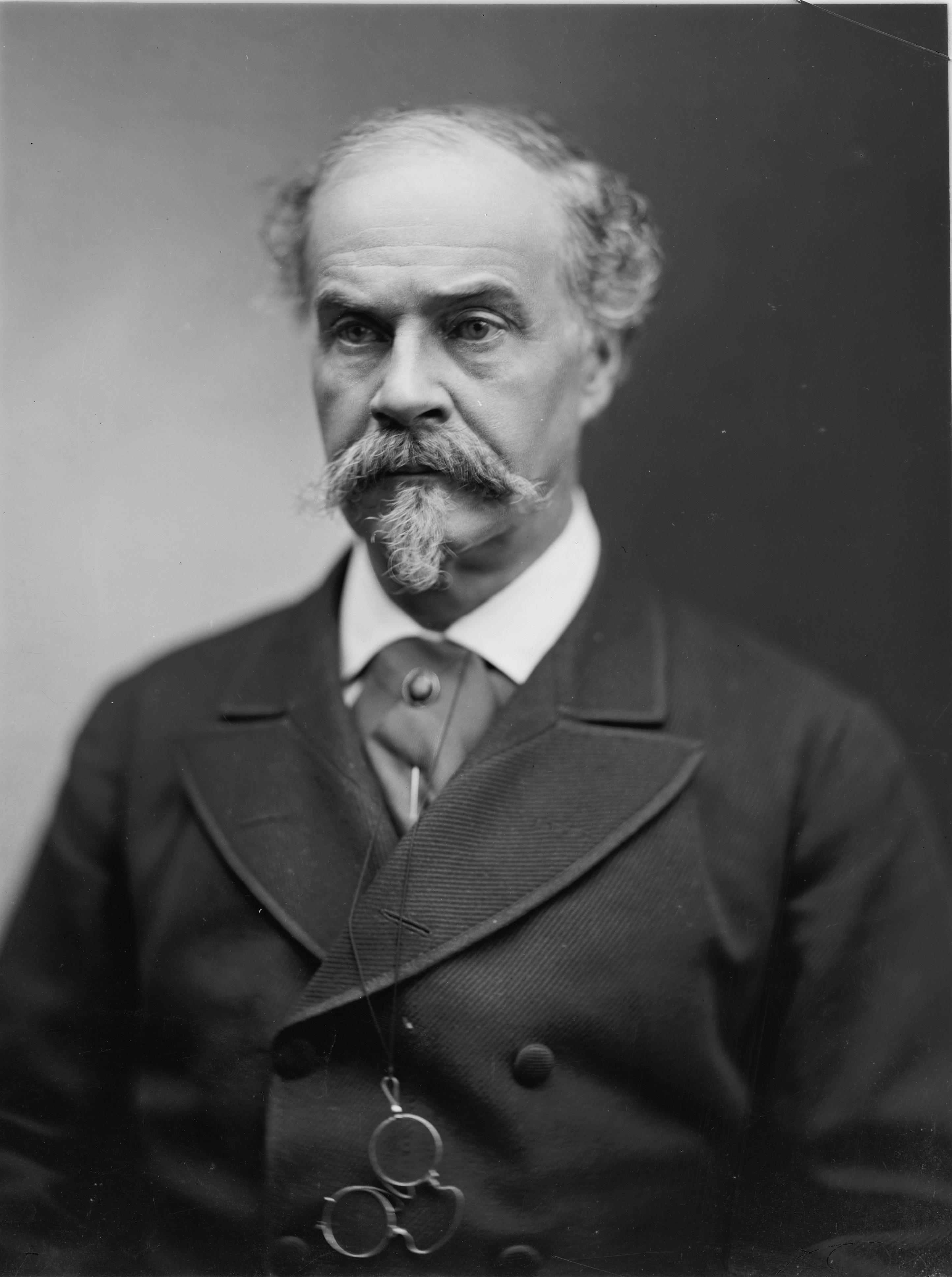 William Wetmore Story. Library of Congress description: "Story, William Wetmore (Sculptor)".